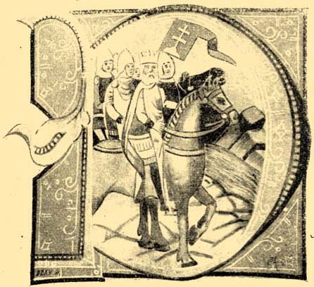 Andrew II of Hungary in Holy Land